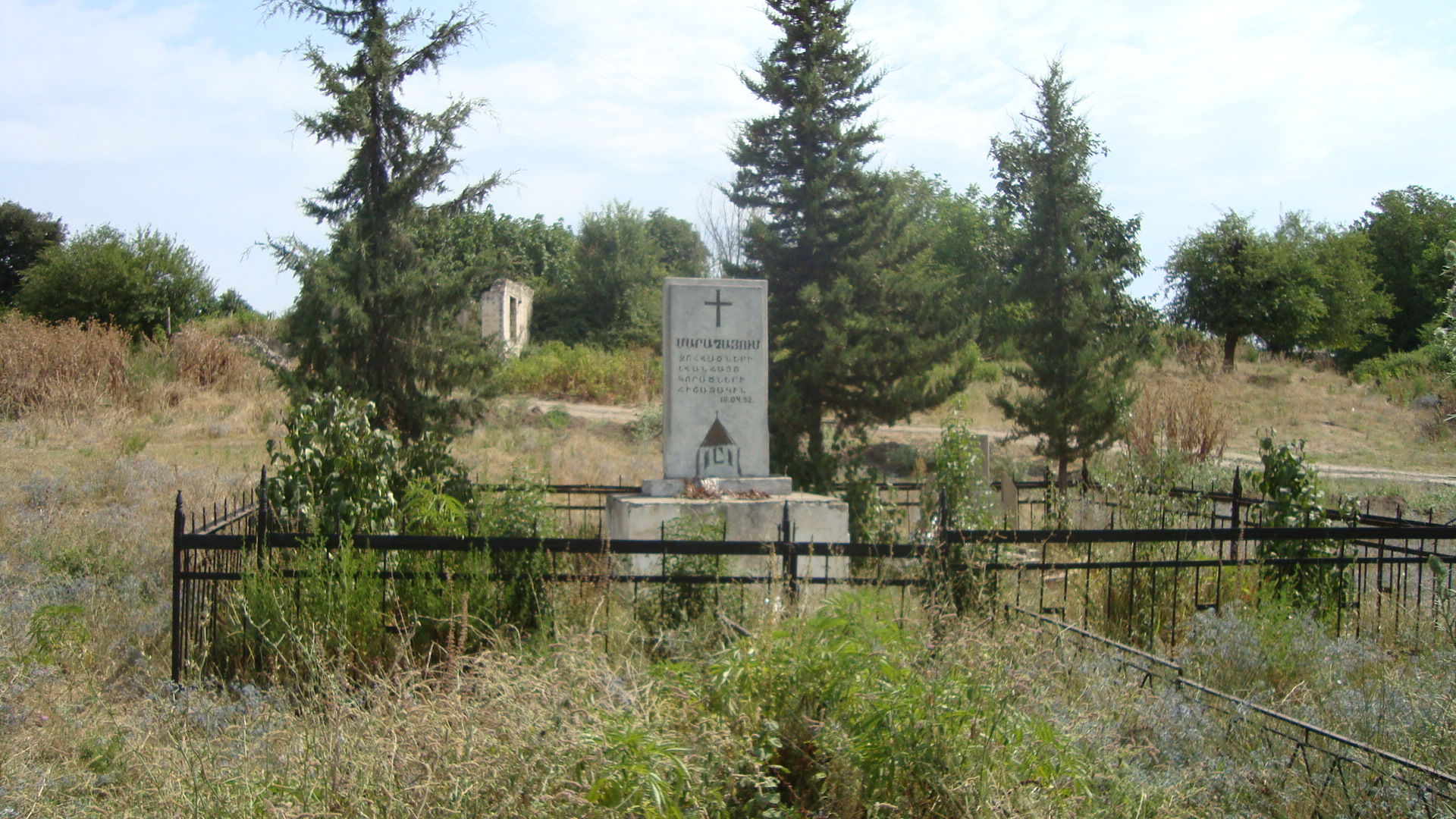 A monument for victims in Maraghar Massacre. Nor Maragha village, Martakert district, Republic of Mountainous Karabakh (Artsakh).